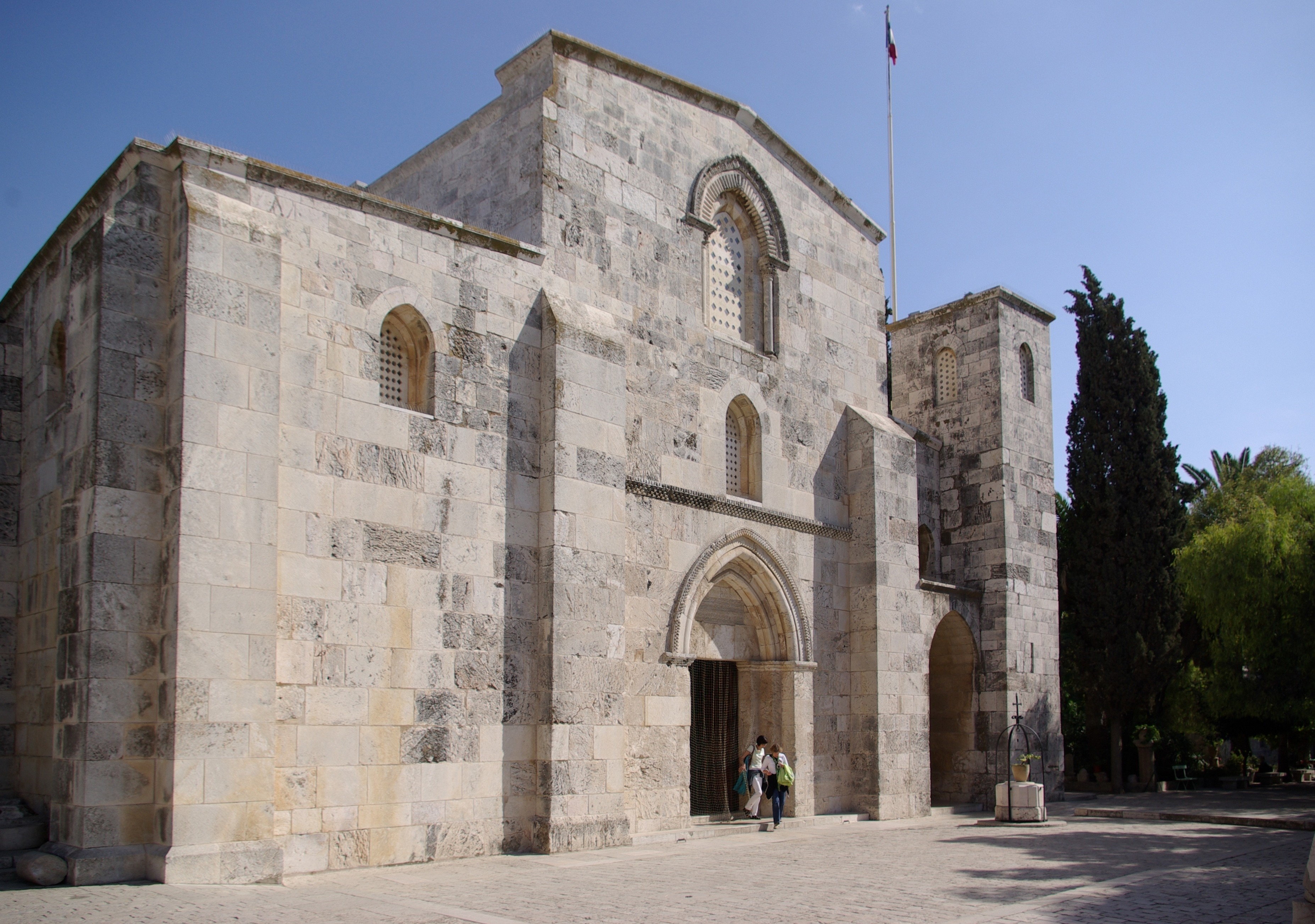 Jerusalem, St. Anna church